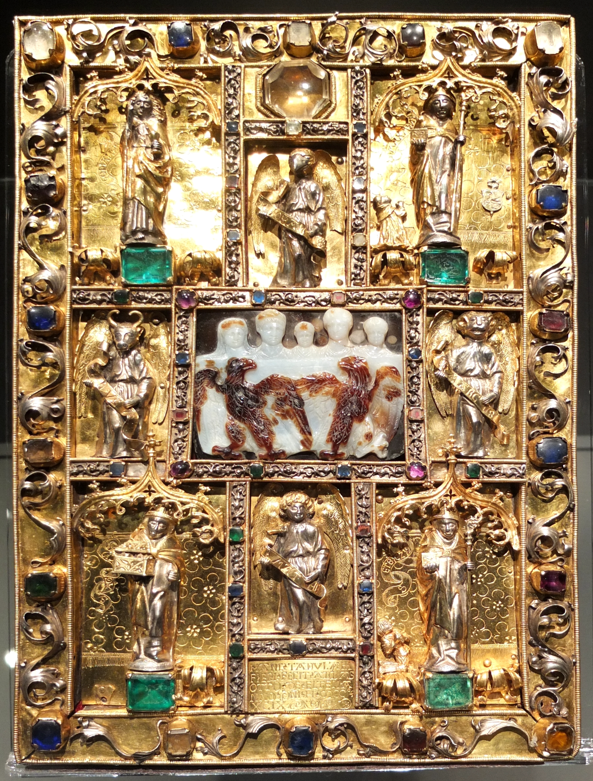 The 1499 gold binding of the Carolingian Ada Gospel displaying the Roman Eagle Cameo with the family of Emperor Constantine, Stadtbibliothek Trier, Germany